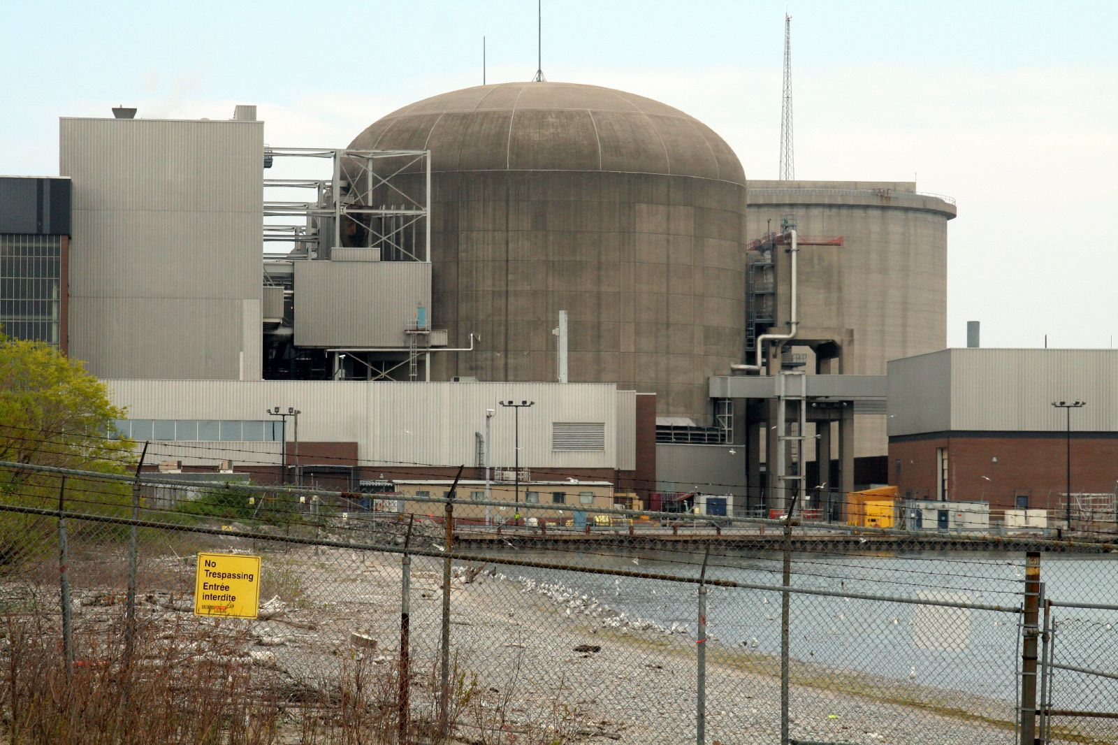 Close view to nuclear power plant